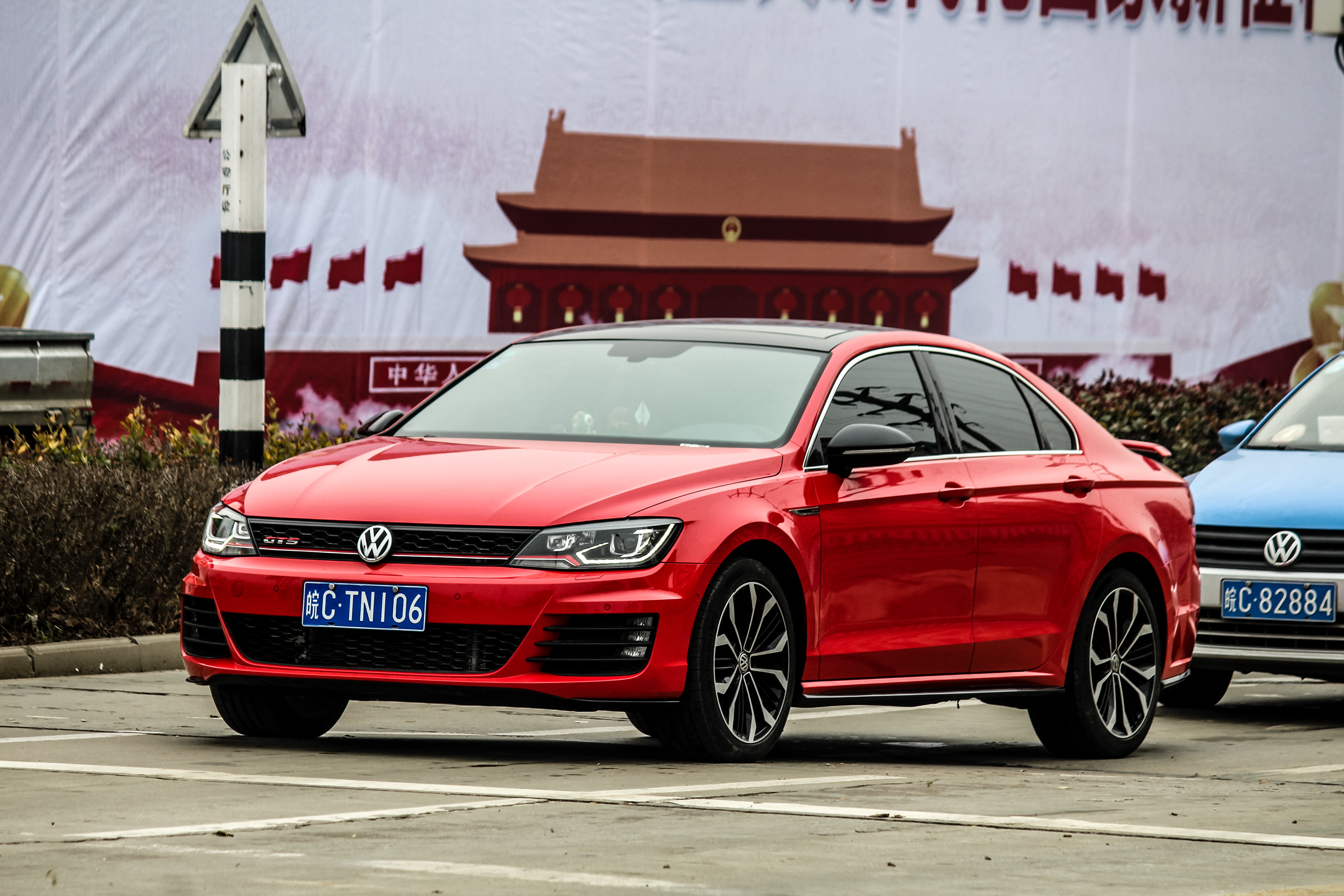 2017 Volkswagen Lamando GTS 01 in Bengbu Anhui China